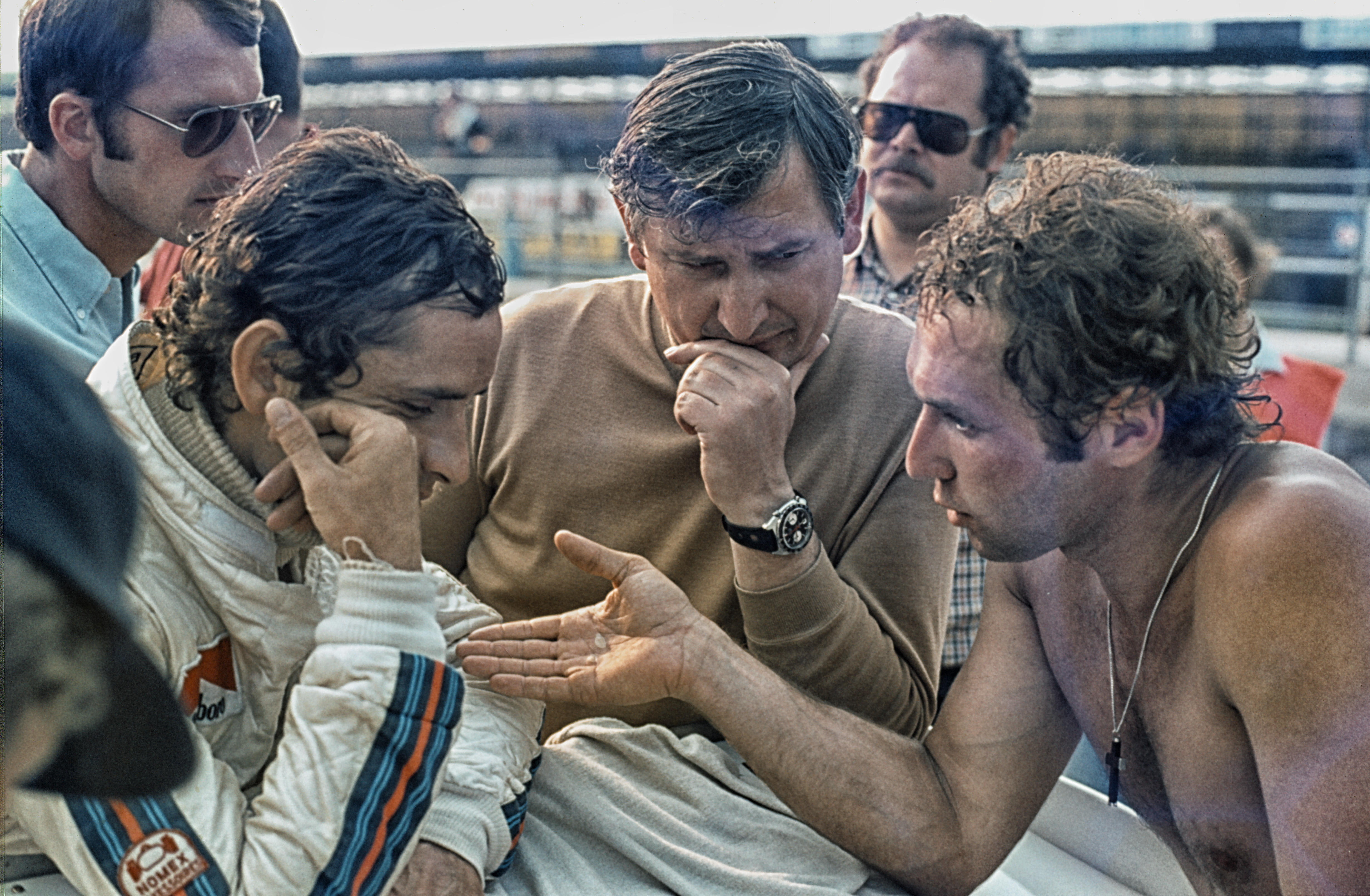 The World Championship For Manufacturers 6 Hours Silverstone 1976